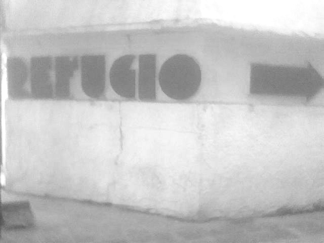 Photo of the ruins of an air-raid shelter in the old quarter of Valencia, Spain. Dates from the Spanish Civil War (1936-9). Location: Carrer de Dalt (High Street).